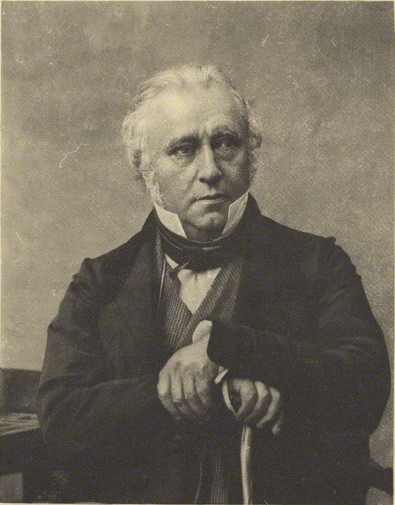 Photogravure of the British historian and Whig politician Thomas Babington Macaulay, 1st Baron Macaulay by the French photographer Antoine Claudet